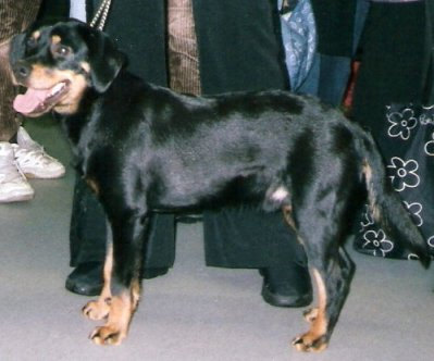 A Smaland Hound male.